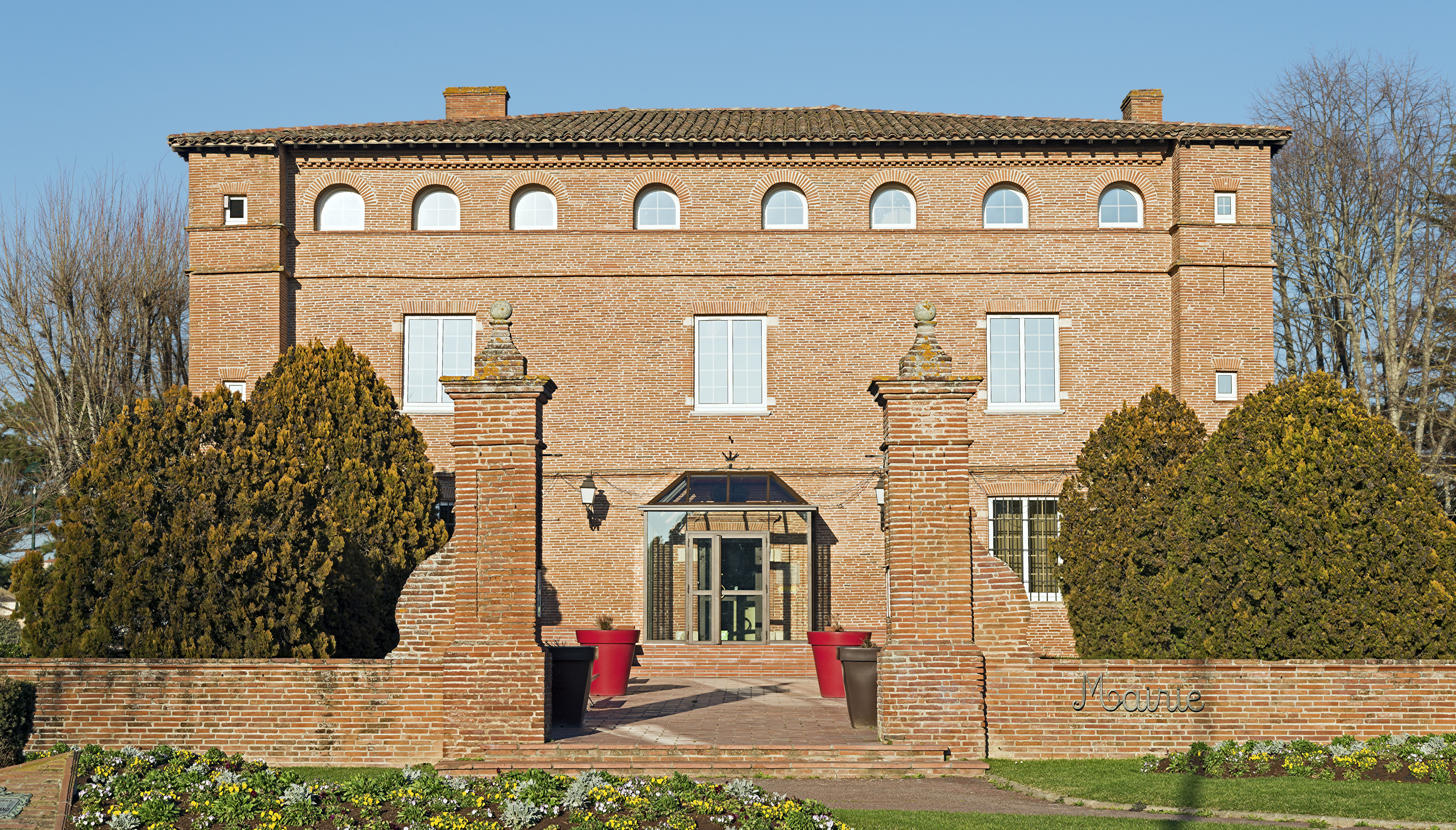 Facade of town hall. Escalquens Haute-Garonne, France.